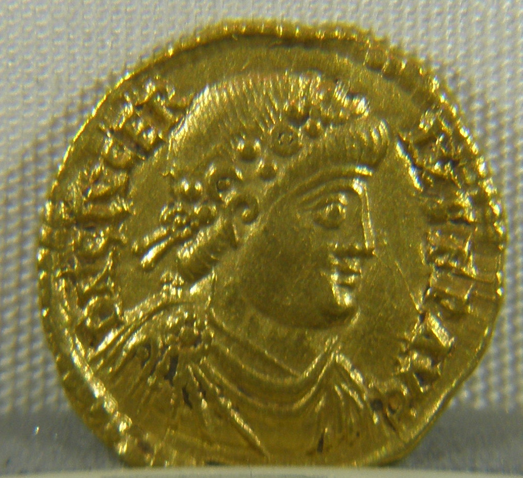 Coin of Glycerius